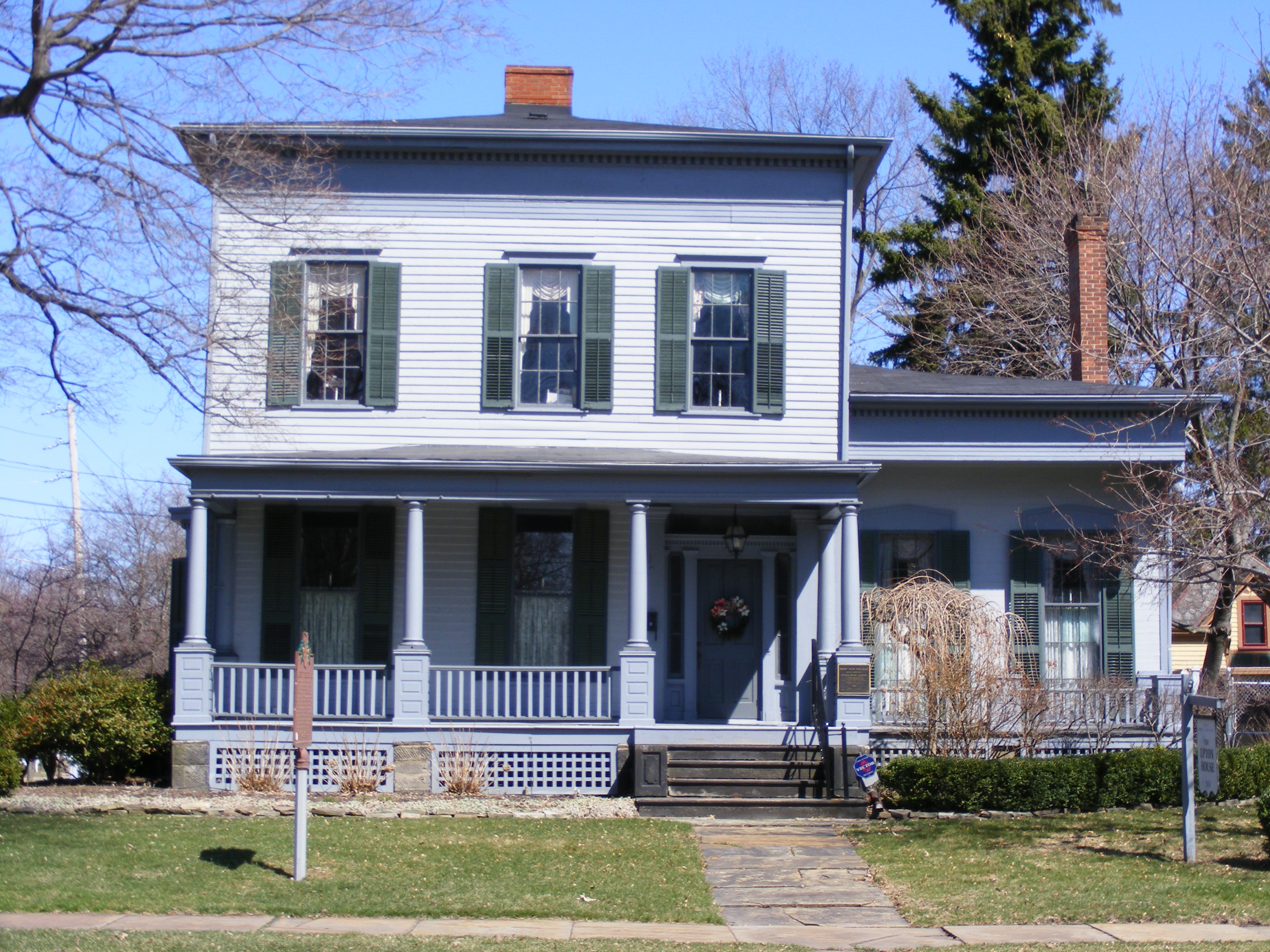 Harriet Taylor Upton House, Waren Ohio, NRHP 92001884